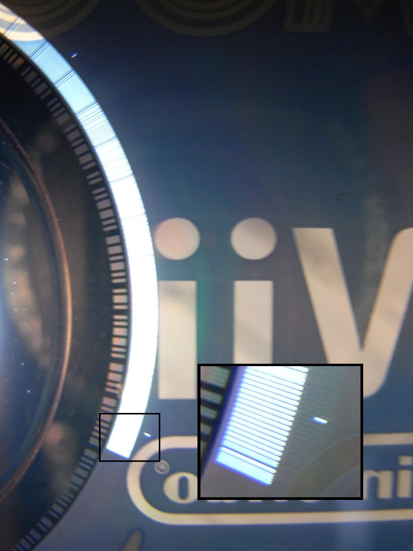 An image showing parts of the Burst Cutting Area of a Nintendo Optical Disc. Two additional cuts outside the BCA rim are visible, which are used for copy protection. One of these cuts is presented in a magnified view.